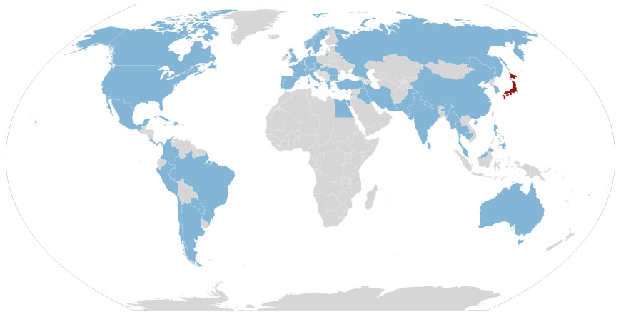 Countries Visited by SGI President Daisaku Ikeda as of January 2016